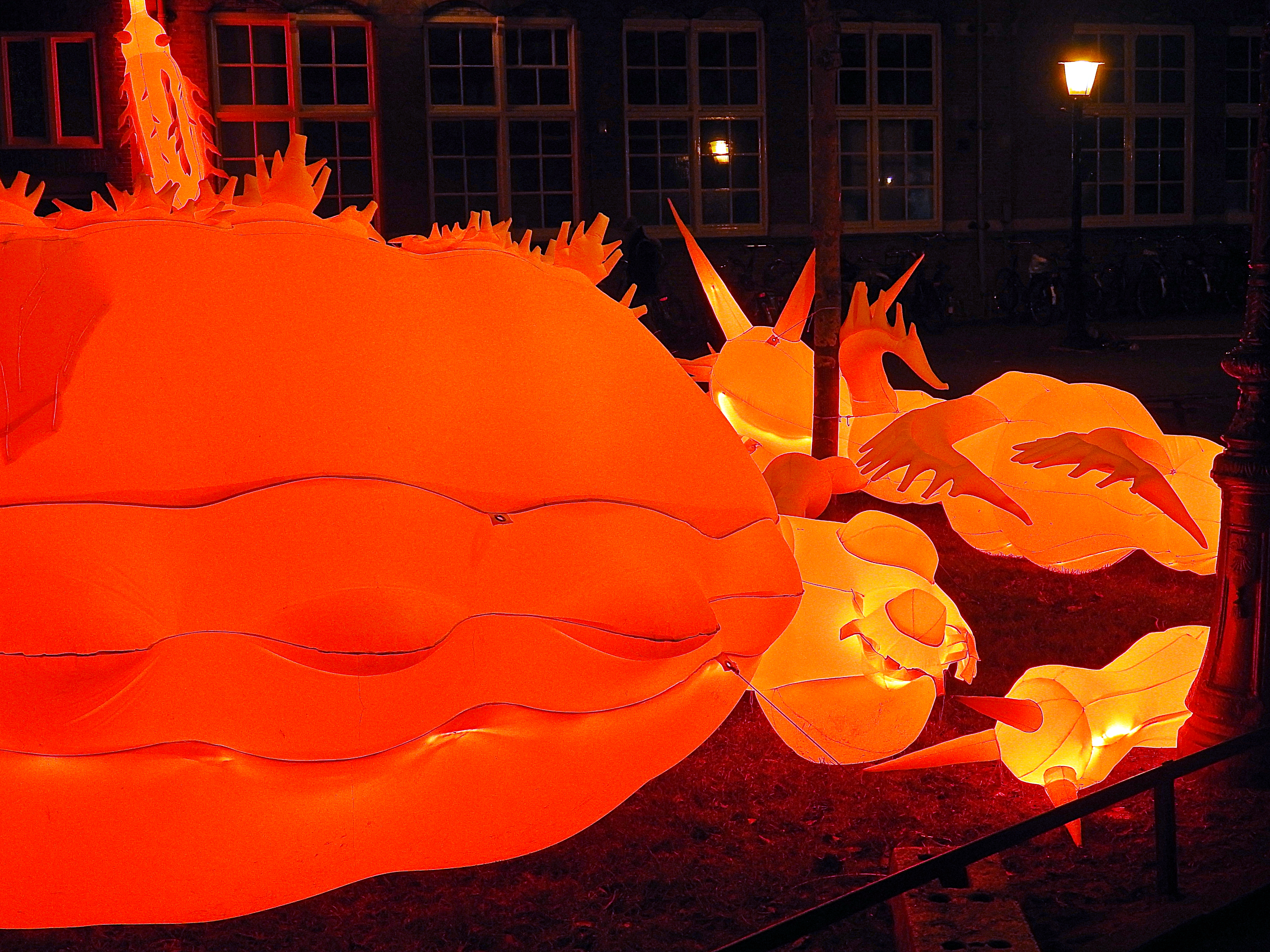 Giant inflatable light installation depicting Rotifers, a phylum of microscopic and near-microscopic pseudocoelomate animals. Created by Nicole Anona Banowetz